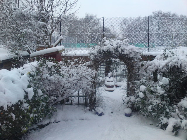 Looking towards the Lammas Park enclosure and tennis courts